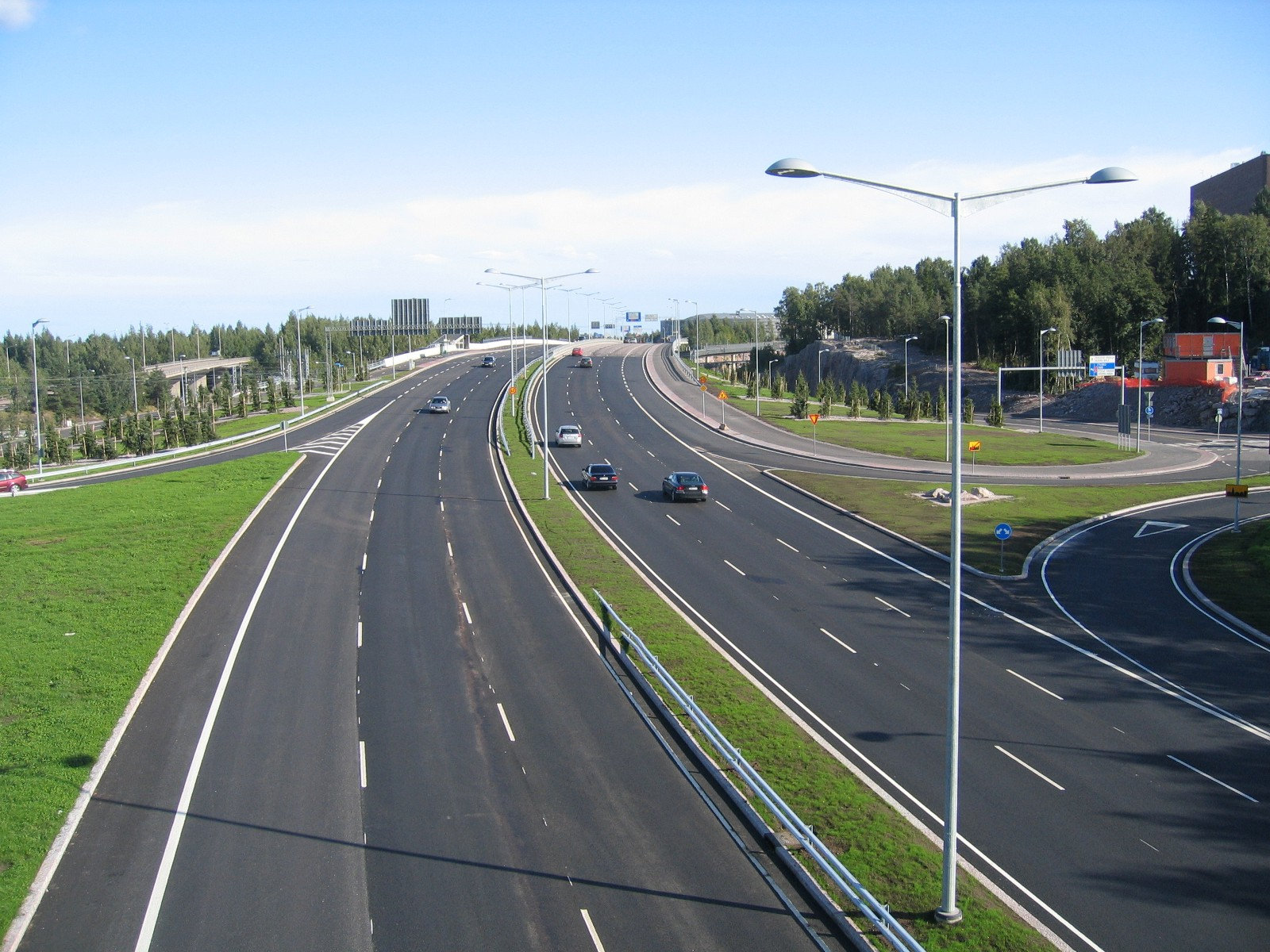 Hakamäentie road (Regional Road 100) at Ilmala junction, looking east. Helsinki, Finland.